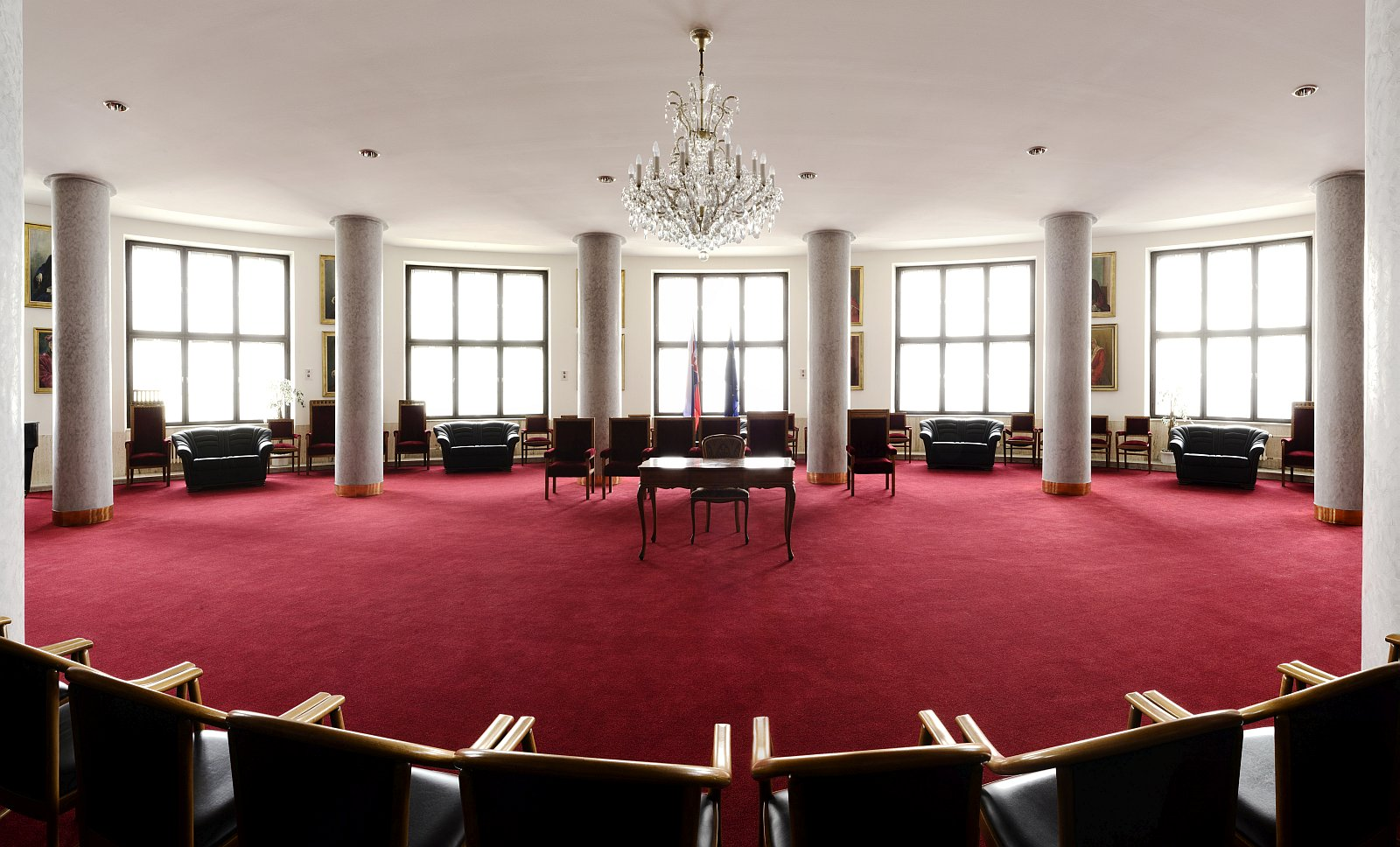 Rektorská sieň v budove Právnickej fakulty Univerzity Komenského